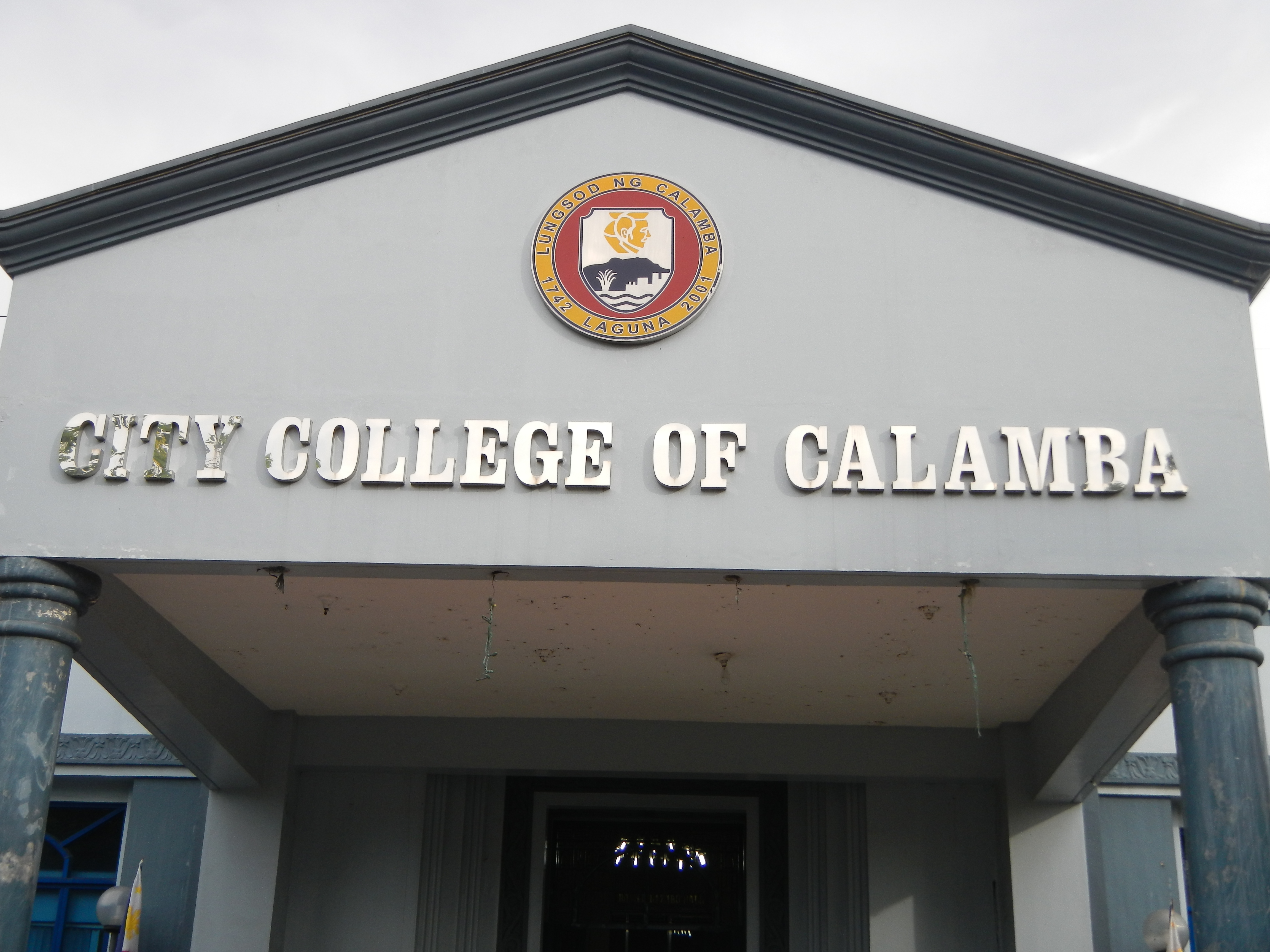 City College of Calamba[1] (CCC) is a non-sectarian, public institution of higher learning located in Burgos St., Barangay 7 (Población), Calamba City. It was established in 2006.[2] (Old Municipal Hall) Coordinates: 14°12'44"N 121°10'3"E --- Calamba, Laguna[3] (NSCB: 043405000) is a component city of Laguna, [4] Philippines. It is the regional center of the CALABARZON region. It is situated 54 kilometres (34 mi) south of Manila, with numerous hot spring resorts, most of which are located in Barangay Pansol and Barangay Bucal. According to the latest census, the city has a population of 389,377, making it the largest local government unit in Laguna. It is also the 4th densest city in the province with more than 2,600 people per square kilometer; Calamba became the second component city of the Laguna by virtue of Republic Act No. 9024, “An Act Converting the Municipality of Calamba, Province of Laguna into a Component City to be known as the City of Calamba.” R.A. 9024 was signed into law by President Gloria Macapagal-Arroyo on March 5, 2001, at the Malacañan Palace. [5] Coordinates: 14°11'15"N 121°6'32"E 2013 Election ResultsMayor: Justin Marc S.B. Chipeco (Nacionalista)[6] Vice Mayor: Roseller H. Rizal (Nacionalista) [7] geographical location: Laguna, Region 4, Philippines, Asia Geographical coordinates: 14° 12' 42" North, 121° 9' 55" East This place is situated in Laguna, Region 4, Philippines, its geographical coordinates are 14° 12' 42" North, 121° 9' 55" East and its original name (with diacritics) is Calamba.